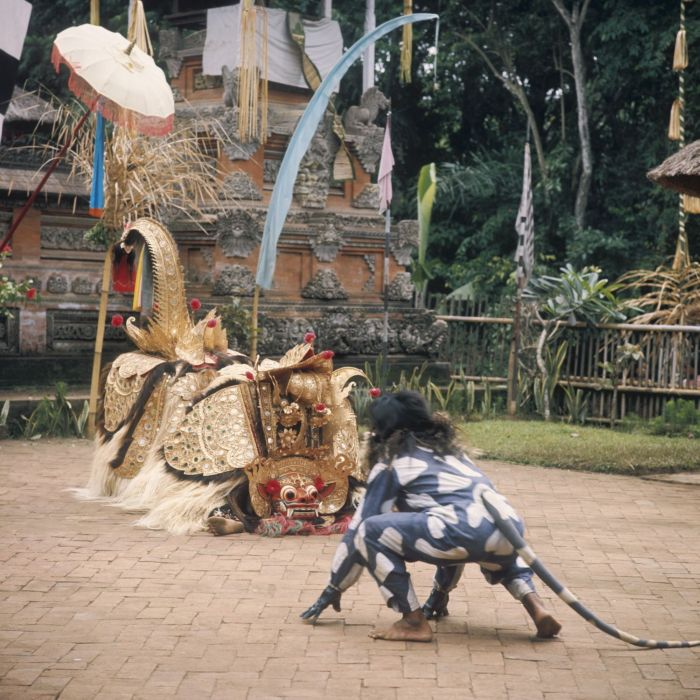 Barong dance performance